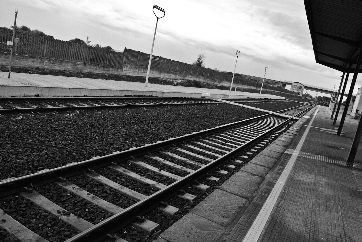 Paulilatino, Sardinia: Paulilatino train station, railway, in B/N.